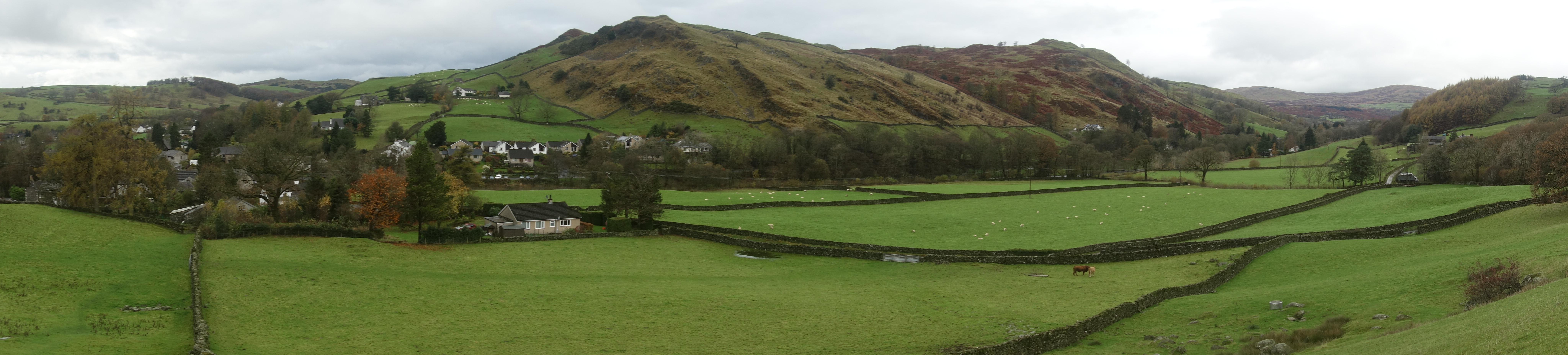 A panorama of Reston Scar, with the village of Staveley at its foot, seen from across the valley